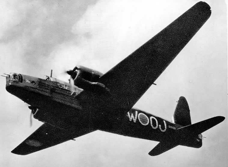 A Royal Air Force Vickers Wellington Mk. IC (P9245, "OJ-W") of No. 149 Squadron RAF. P9245 was delivered in March-April 1940 and lost in a raid from RAF Mildenhall, Suffolk (UK), to Boulogne on 9 September 1940. It crashed into the sea off Clacton, Essex (UK), P/O Parish being the only survivor.